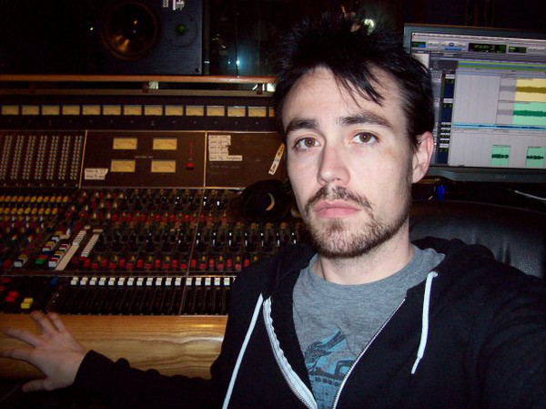 Nels Jensen at Red Barn Studios in Big Sur